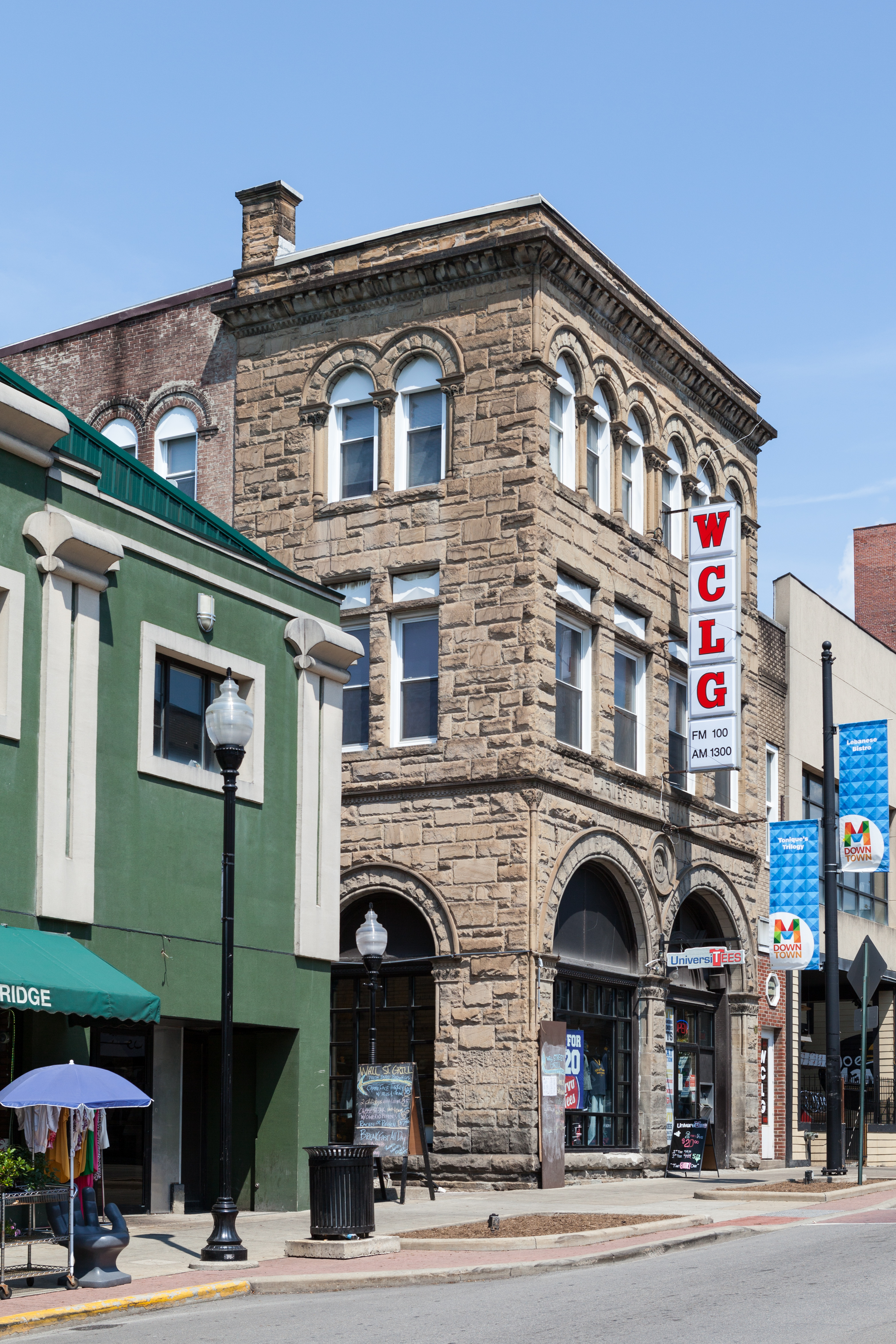 Studio building of WCLG and WCLG-FM, at 343 High Street in Morgantown, West Virginia.